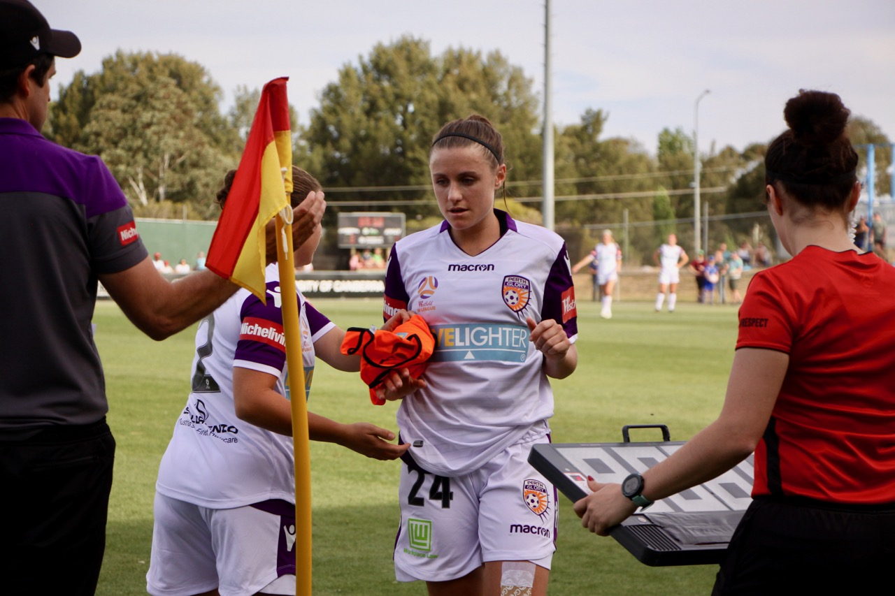 Round2CanPer - RigbySub